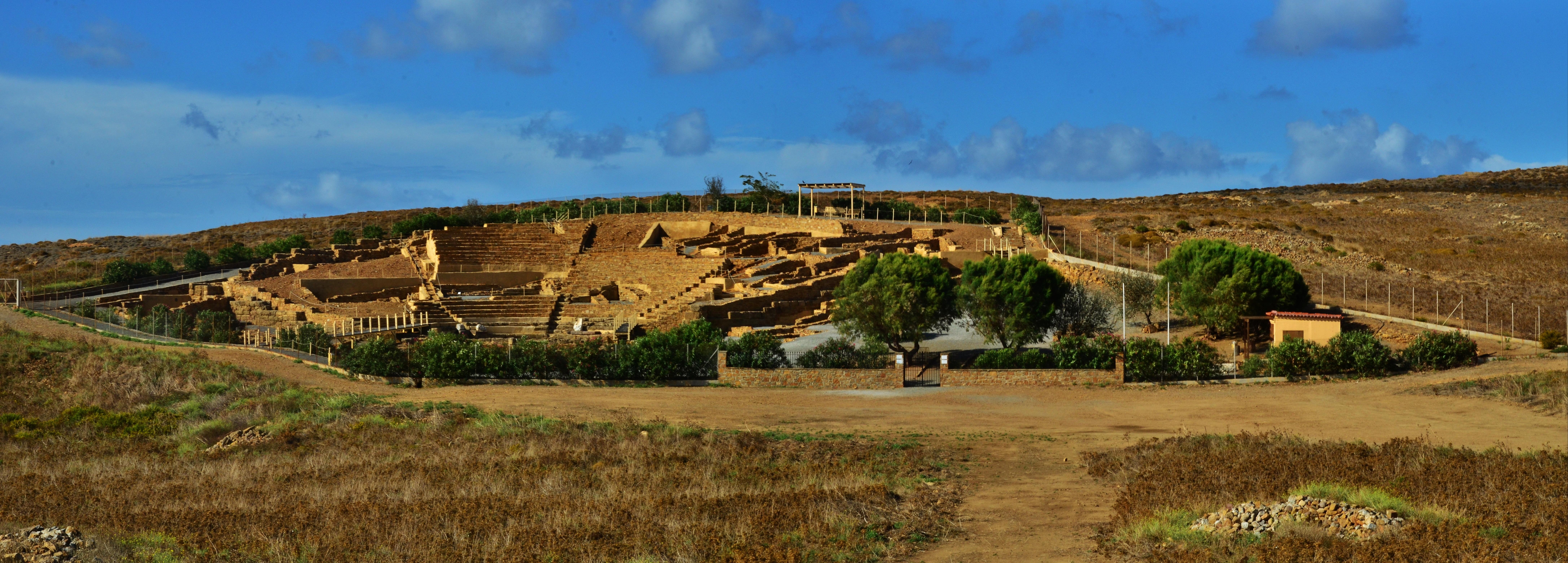 Ancient Hephaistia Lemnos theatre